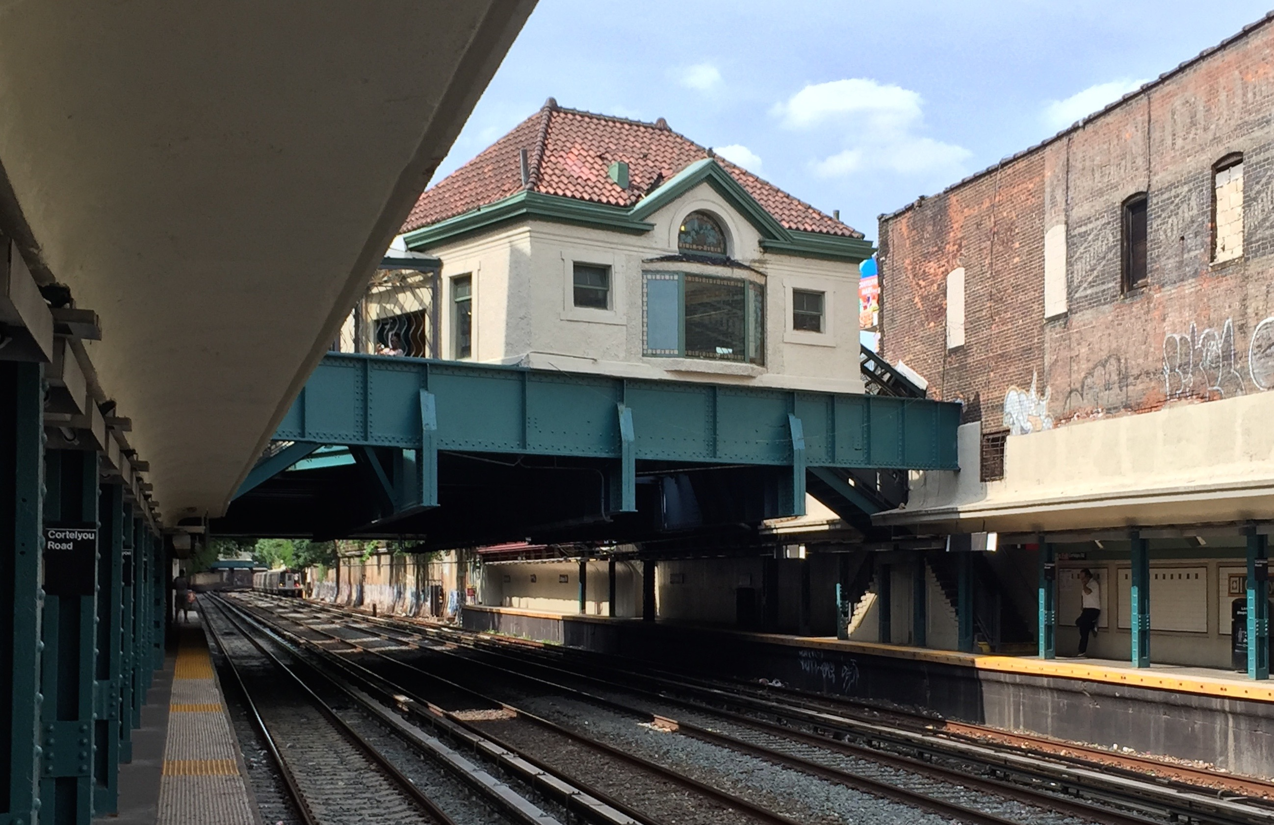 Stationhouse at the Cortelyou Road Q station.